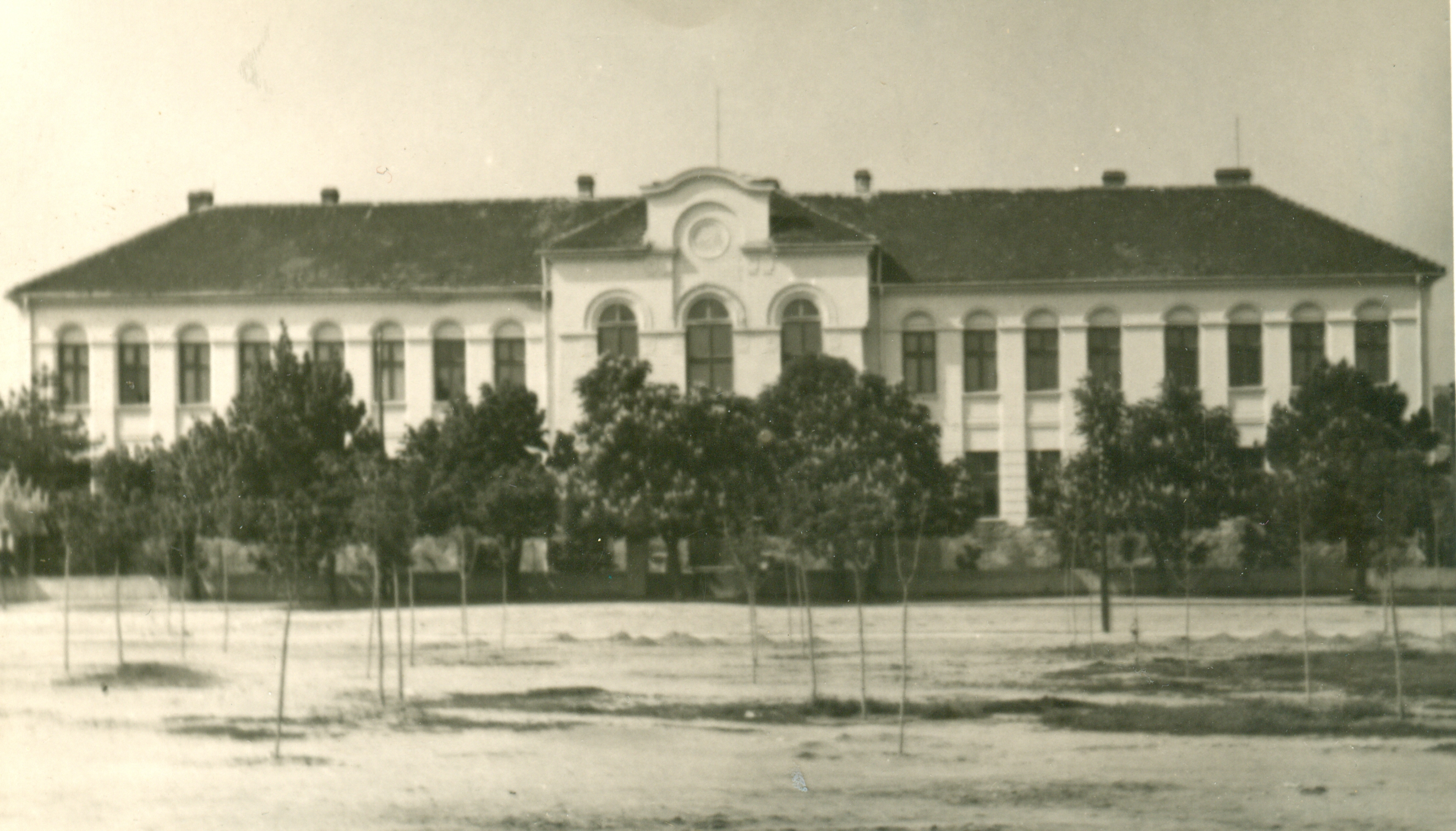 School for teachers in Negotin, 1953. Srpski (latinica): Učiteljska škola u Negotinu 1953.